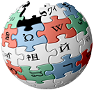 A finalist variant of the 2003 Wikipedia international logo contest [1]